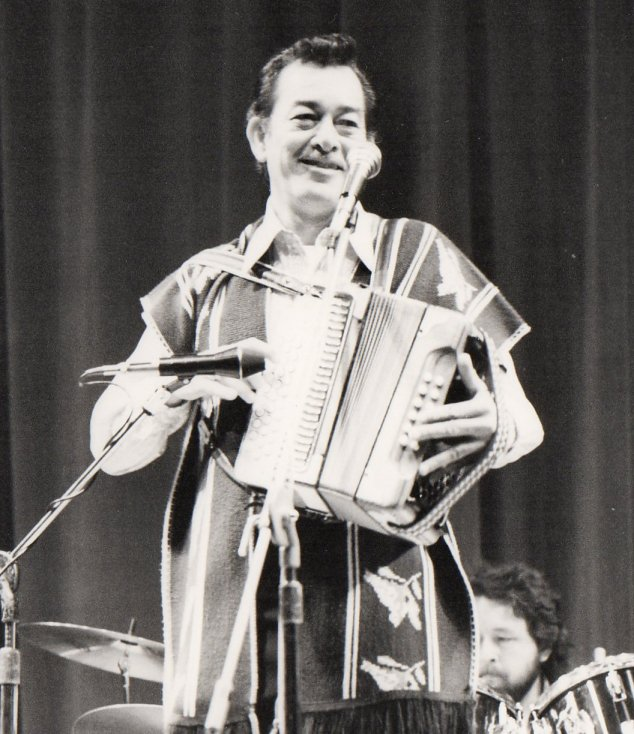 Flaco Jimenez (musician) on stage at Farnham, U.K., 1985 (photograph by Tony Rees)